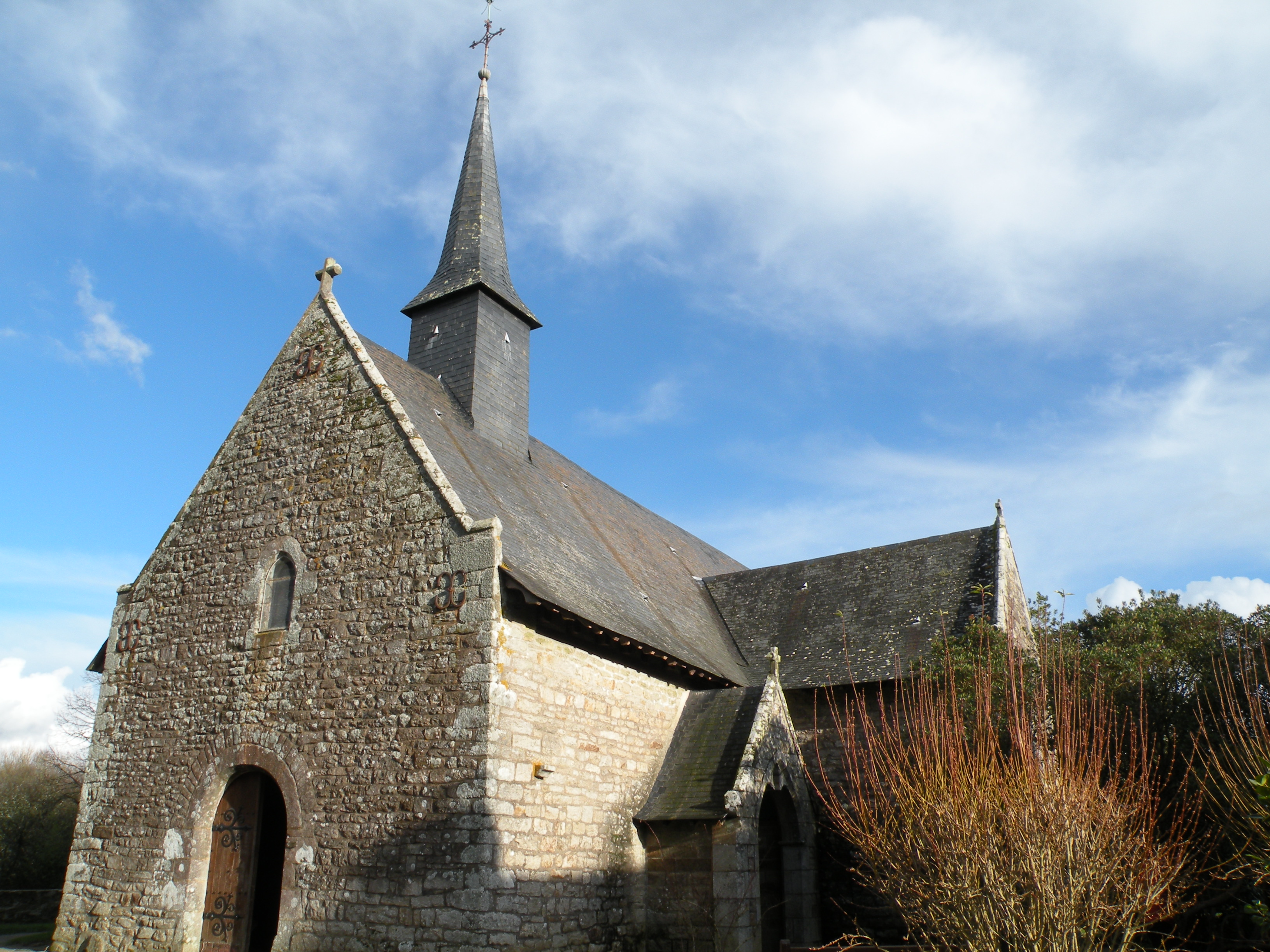 Notre-Dame de Bongarant chapel in Sautron